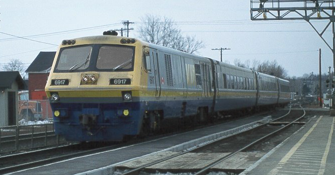 VIA Rail Canada LRC #6917 comes to a stop at Brockville, Ontario.